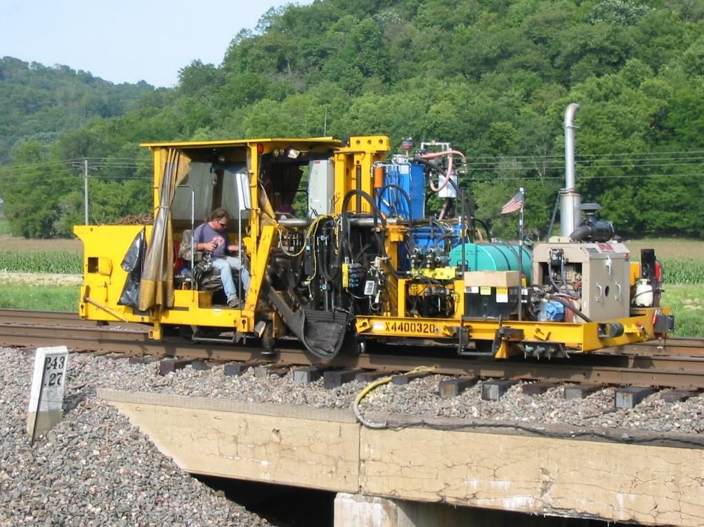 A spiker at work on the BNSF Railway in Prairie du Chien, Wisconsin